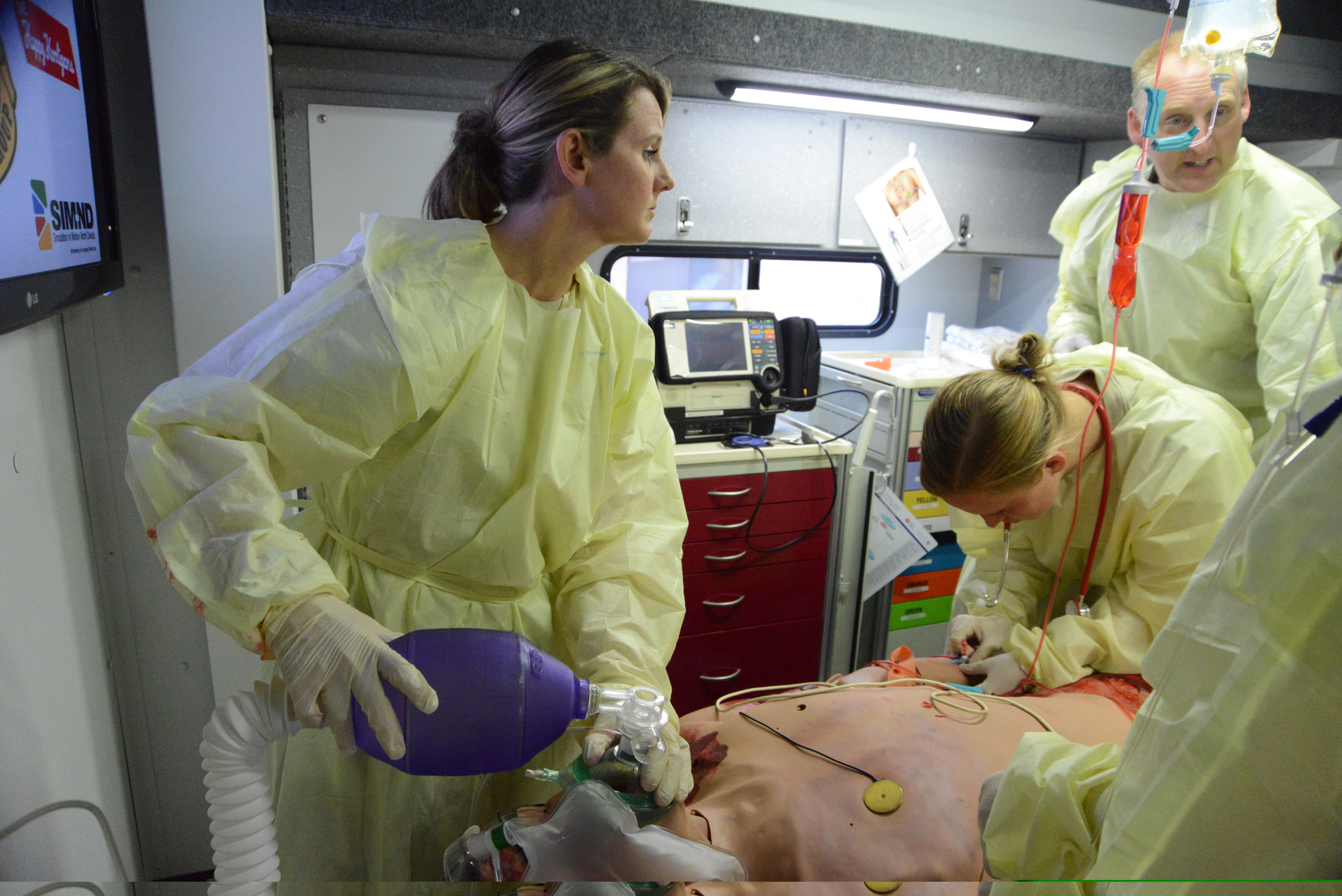 U.S. Air Force Maj. Jackie Nord, left, Senior Airman Kally Anderson, center and Maj. Erik Holten, all with the 119th Medical Group, North Dakota Air National Guard, attend to simulated injuries on a state-of-the-art human patient simulator mannequin during training at the North Dakota Air National Guard Base in Fargo, N.D., June 3, 2014. The mannequin was fully capable of simulating normal bodily processes, such as breathing and having a heartbeat. The realistic human simulator mannequin was one piece of the training equipment and instruction provided by the Simulation in Motion-North Dakota Program, which was operated by the North Dakota Department of Health and the University of North Dakota, in an effort to provide realistic pre-hospital and emergency care to medical personnel throughout the state. (U.S. Air National Guard photo by Senior Master Sgt. David H. Lipp/Released)